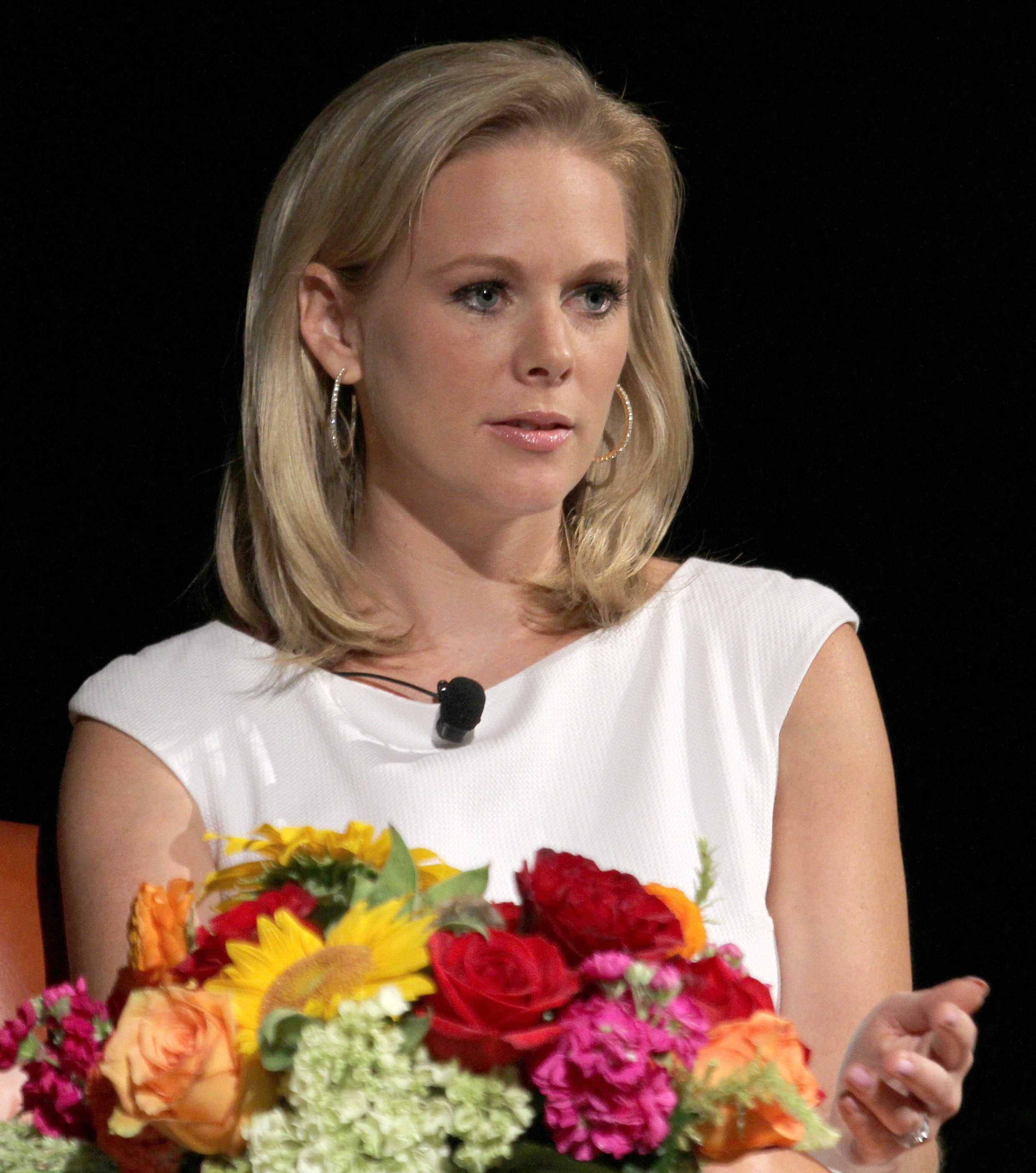 Margaret Hoover, great-granddaughter of President Herbert Hoover, speaking at the Lyndon Baines Johnson Library and Museum.